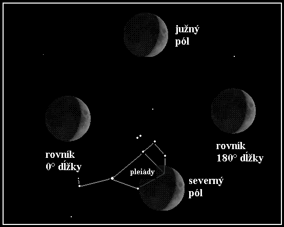 This is the Slovak modification of Image:Lunarparallax 22 3 1988.png created by user:Tomruen, modified by me, user:helix84.